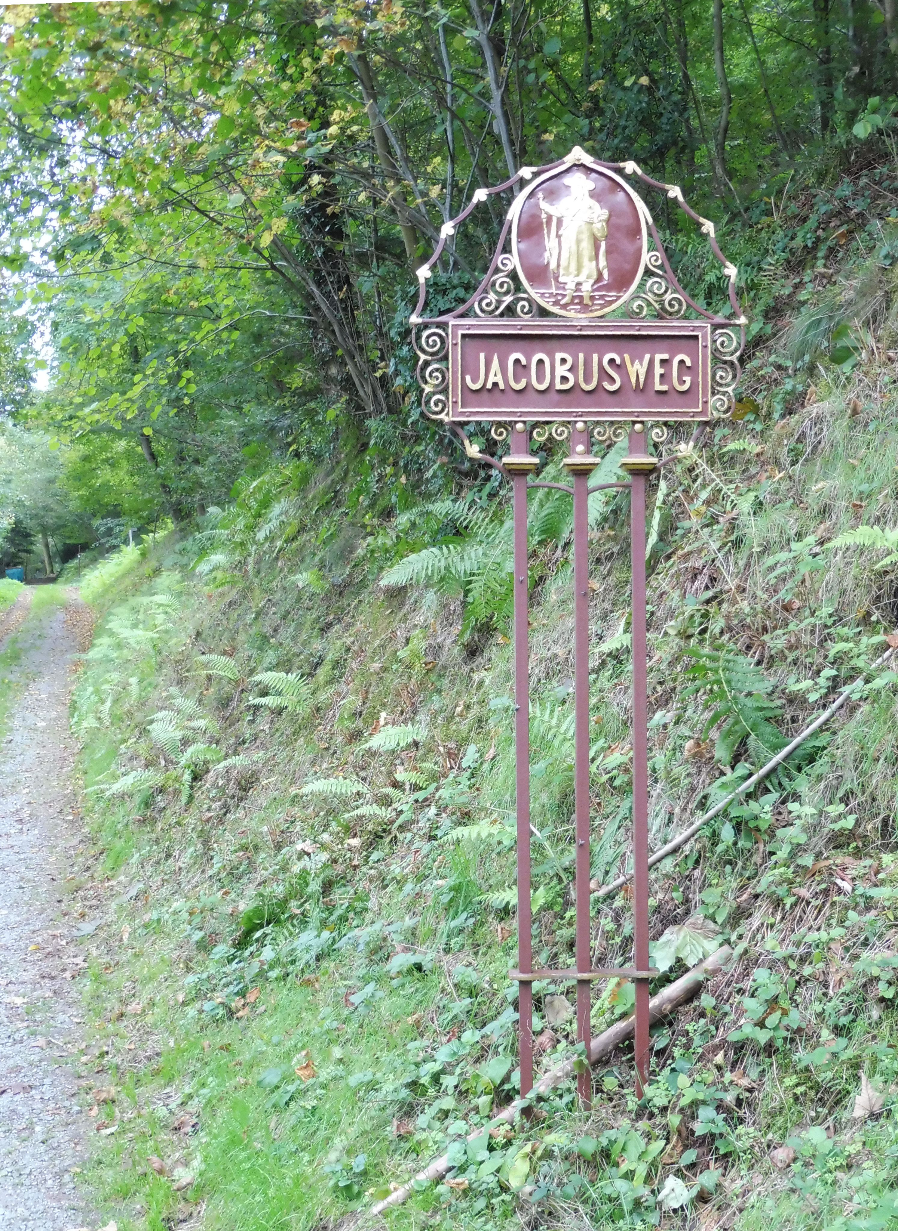 WEgweiser am Jakobusweg bei Jakobuskapelle Wolfach, Baden-Württemberg